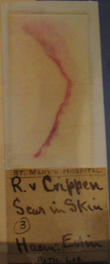 Cora Crippen's scar tissue mounted as an exhibit for the Crippen trial. Photograph taken by me at the Royal London Hospital Museum on March 27 2008.